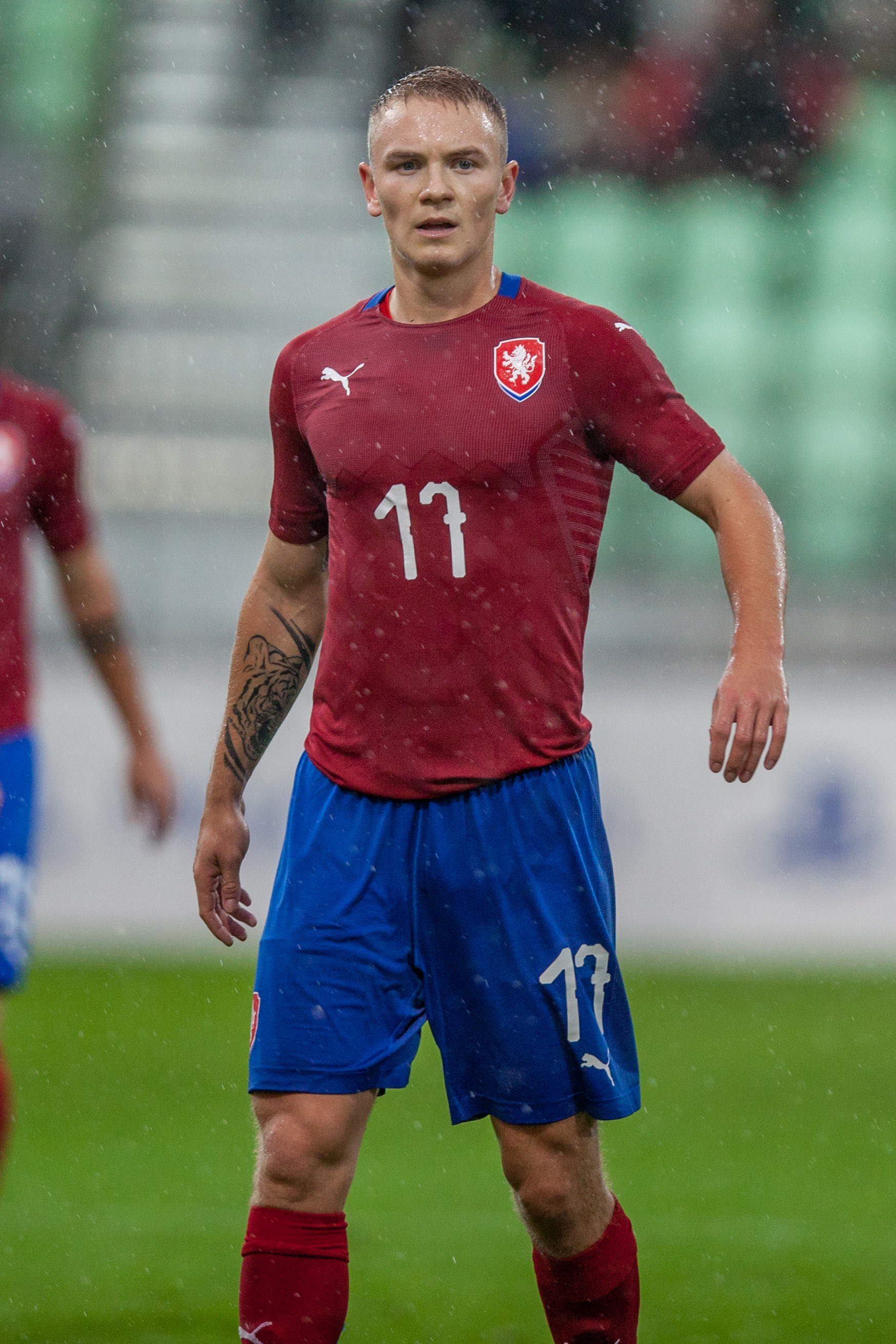 Jan Matoušek in an internatinoal association football match of European Under-21 Championship Qualifying Round between the Czech Republic and Greece, Městský stadion Karviná, Karviná District, Moravian-Silesian Region, Czechia Personality rights warningAlthough this work is freely licensed or in the public domain, the person(s) shown may have rights that legally restrict certain re-uses unless those depicted consent to such uses. In these cases, a model release or other evidence of consent could protect you from infringement claims.